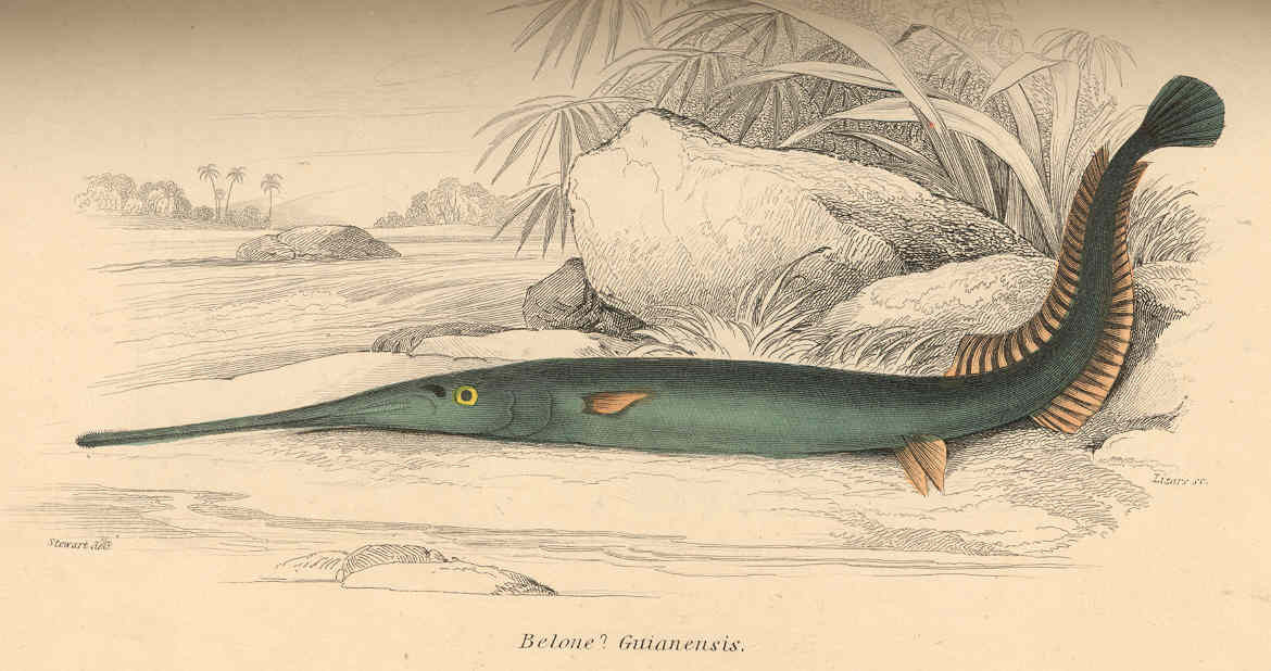 Belone guianensis Subject: Belone, Gars Tag: Fish